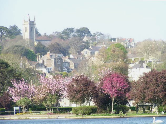 Helston Church area. Taken from the side of the Coronation boating lake.